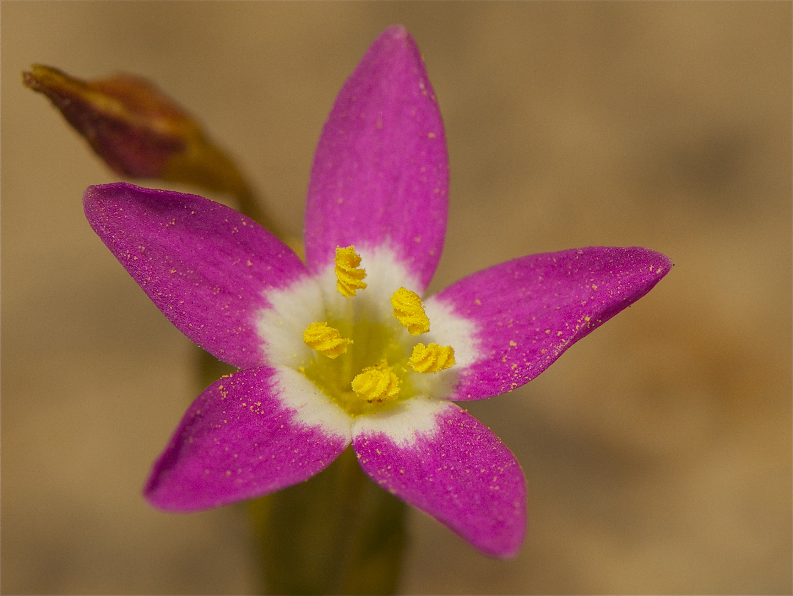 Davy's Centaury. The really cool thing about this small flower are the anthers. Look on larger size to see how twisted they are as well as the pollen on the petals. Found on the Quarry Trail.